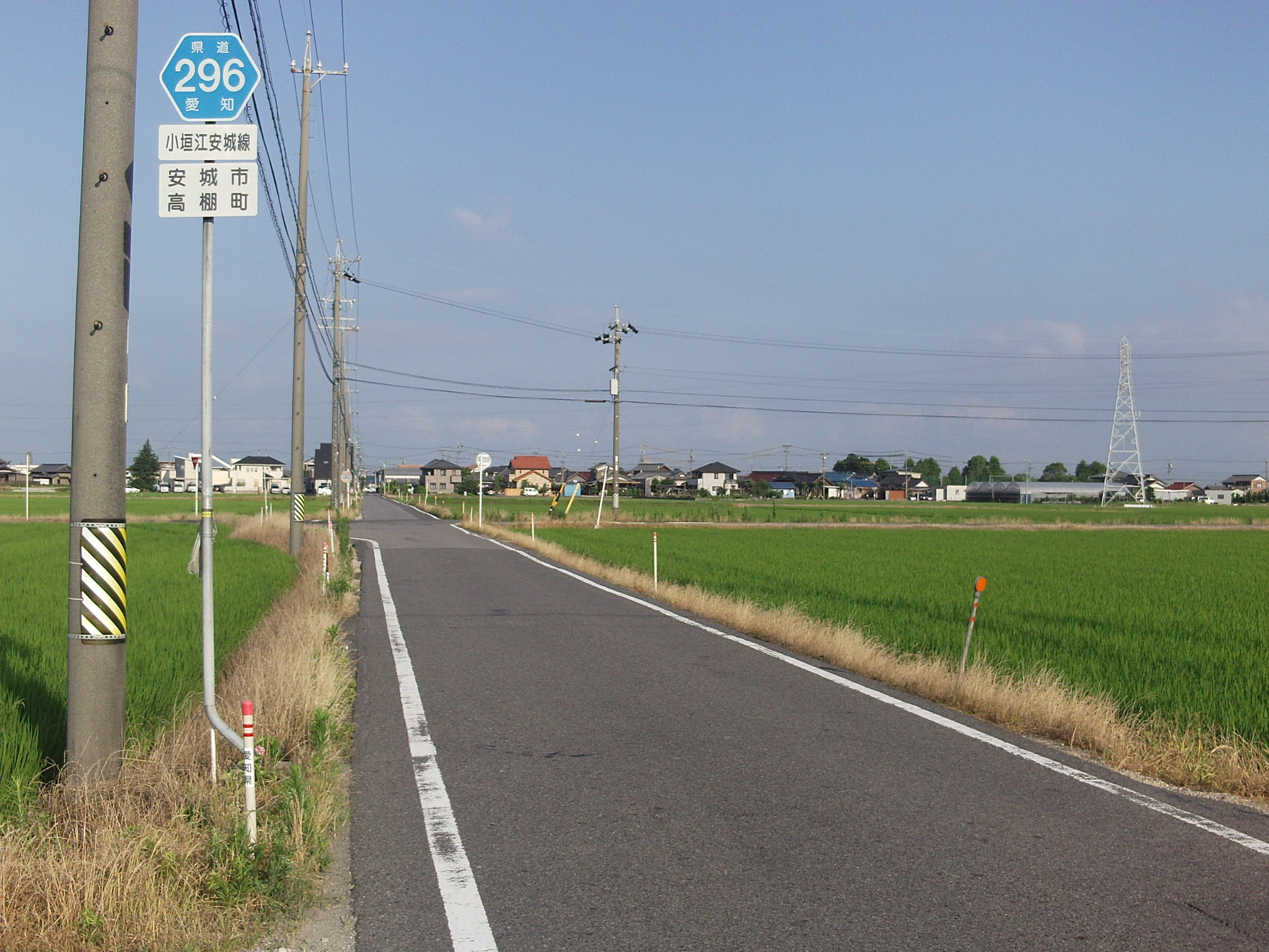 Aichi prefectural road No.296 in Takatanacho, Anjo, Aichi.